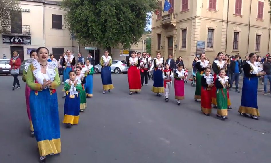 Arbëreshë costume from Santa Sofia d'Epiro, Calabria during the Bukuria Arbëreshë in Cosenza, Calabria 2017